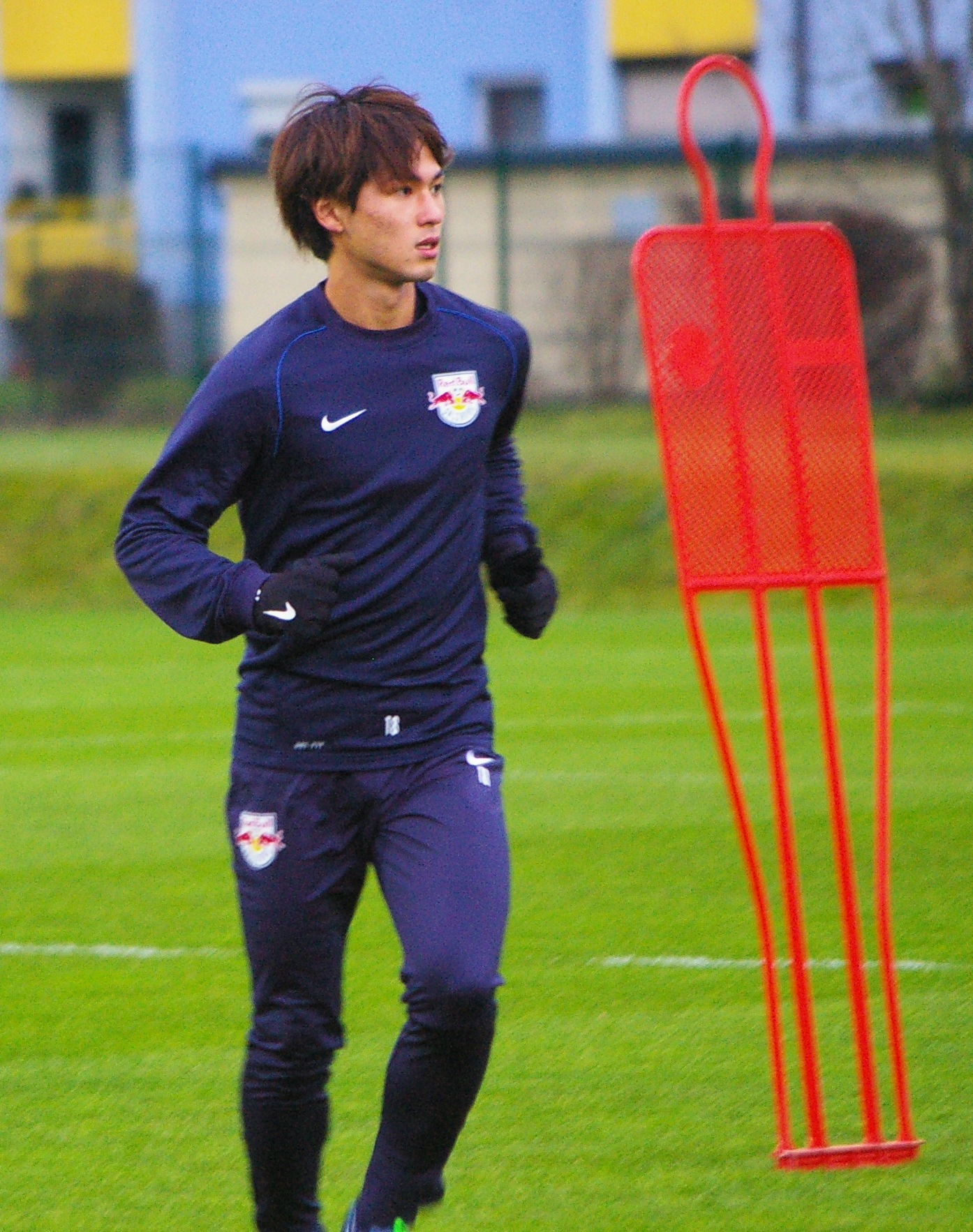 first training of FC RB Salzburg with new players Marco Djuricin and Takumi Minamino